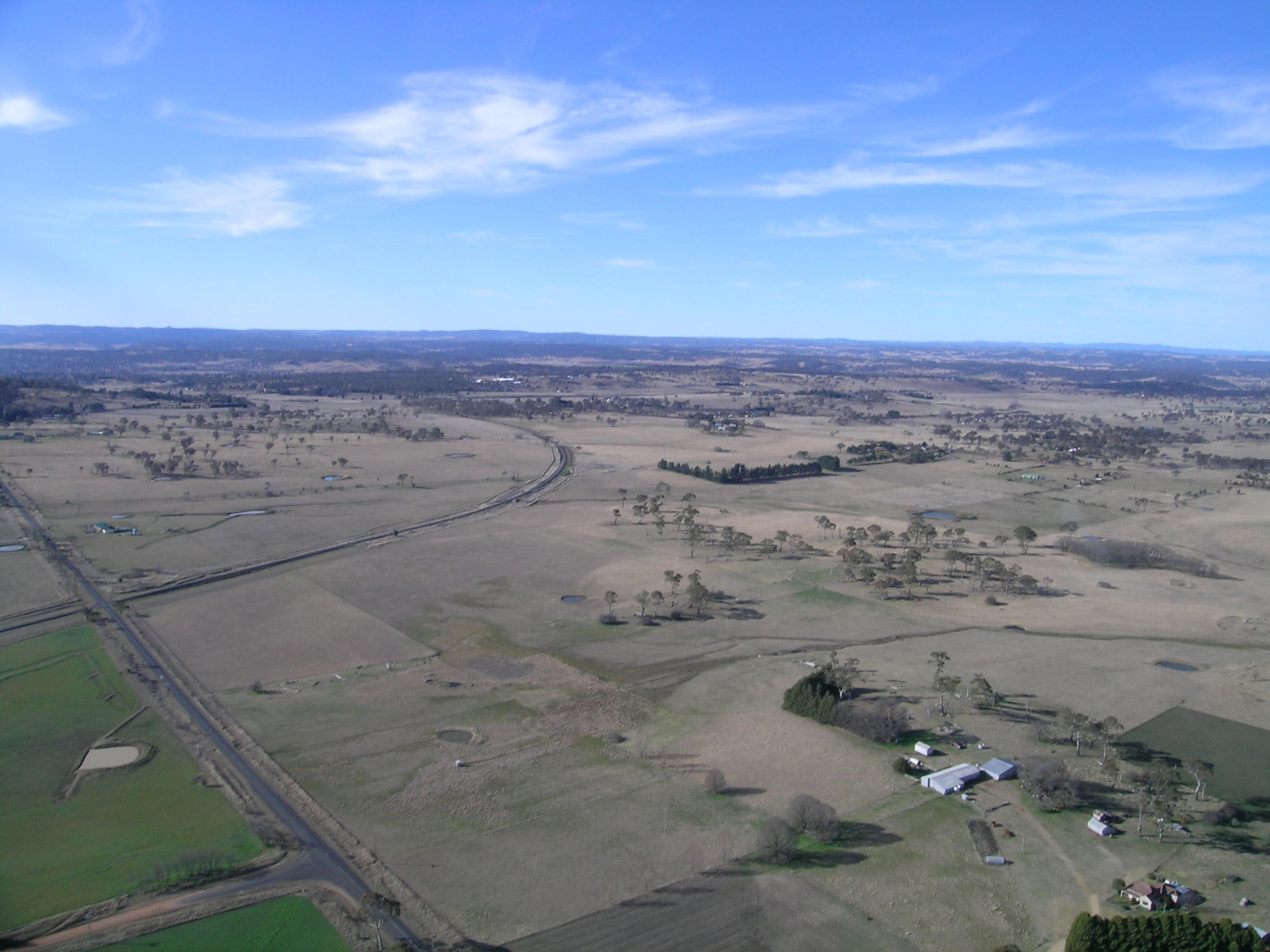 Kelly Plains, NSW